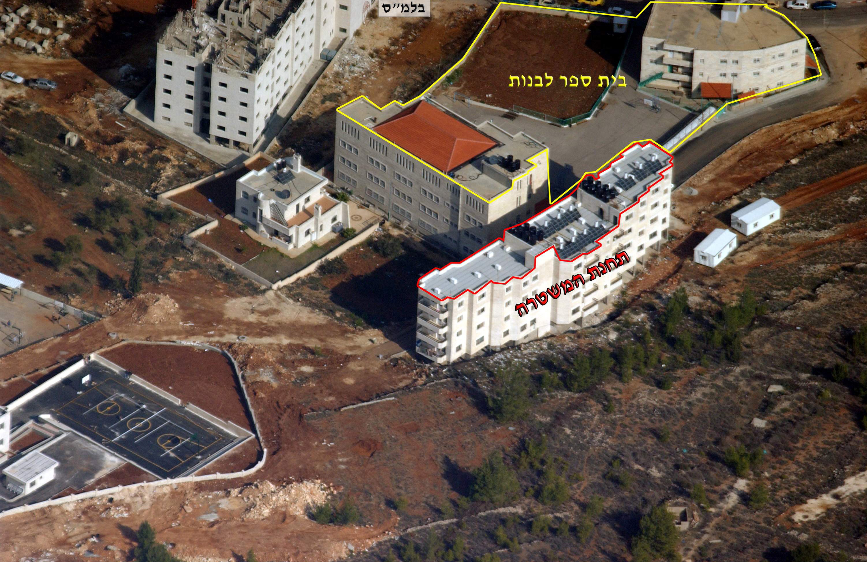 07/04/2006 After an 18 year old Israeli youth named Eliyahu Asheri was kidnapped and murdered, three of the militants hid in a Palestinian police station before being arrested by IDF forces. This aerial photo shows the location of the militants. Pictured: A school for girls (marked in yellow) stands alongside the police station (marked in red) where the militants were found. The Israel Defense Forces Facebook The Israel Defense Forces blog Follow us on Twitter